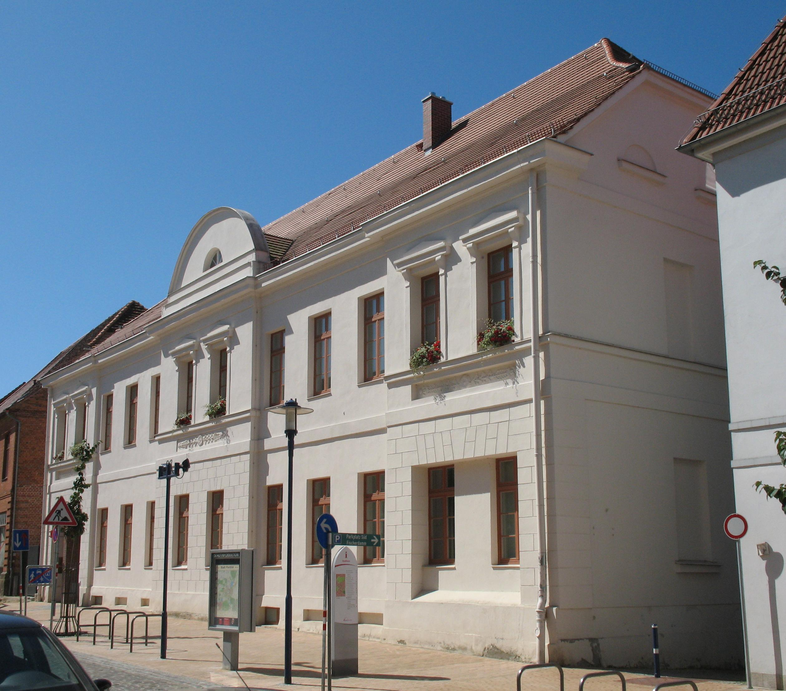 Building in Parchim in Mecklenburg-Western Pomerania, Germany